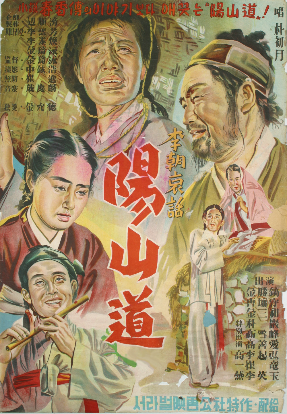 1955 movie poster for 1955 Korean movie Yangsan Province (양산도 - Yangsan do) aka The Sunlit Path.